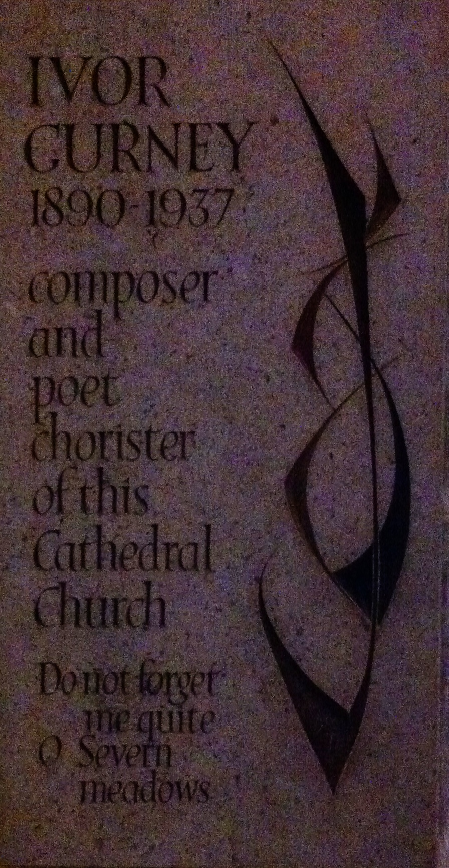 Ivor Gurney 1890 - 1937. composer and poet chorister of this Cathedral Church. Do not forget me quite Severn meadows